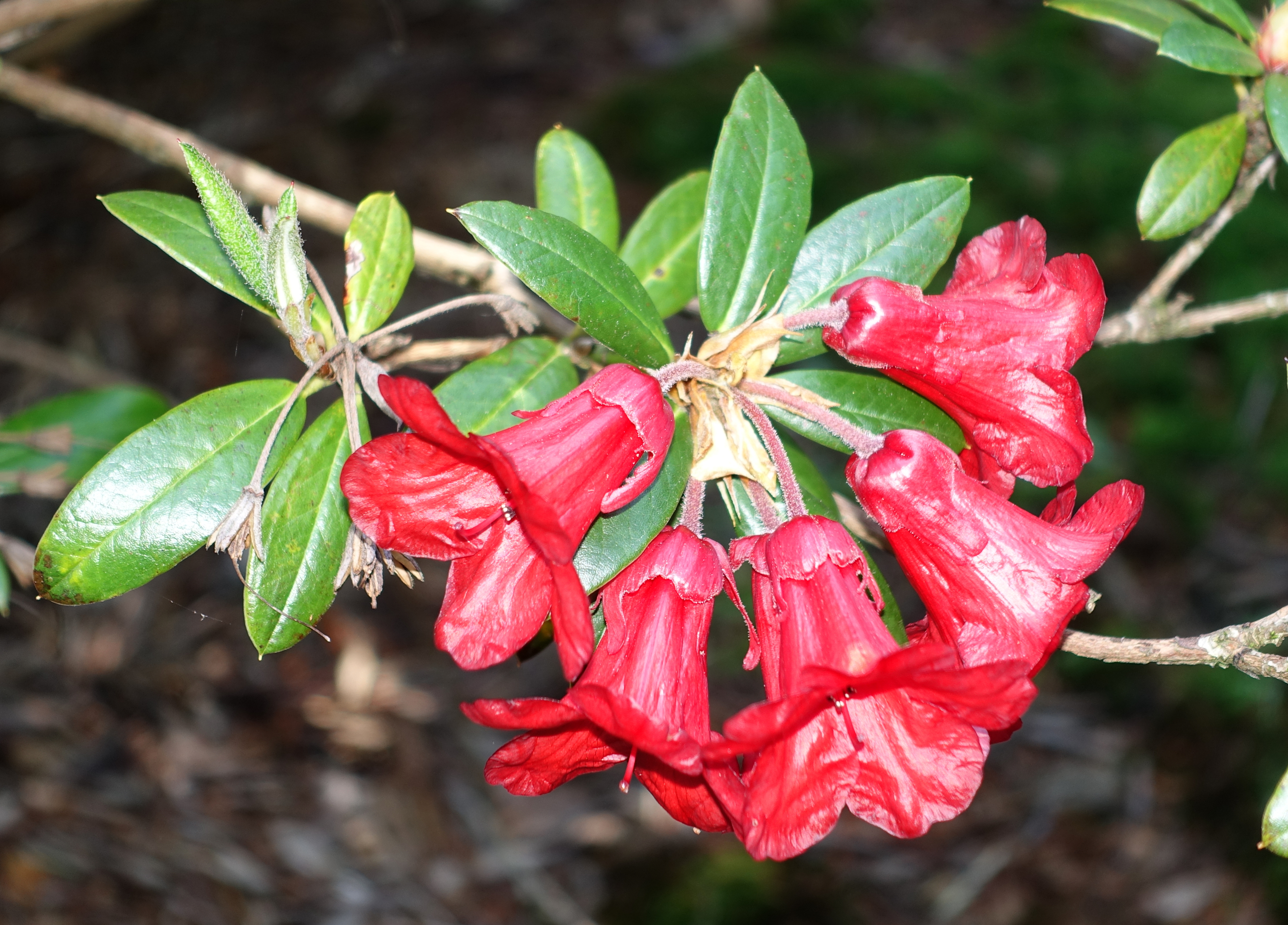 Botanical specimen in the VanDusen Botanical Garden - Vancouver, BC, Canada.